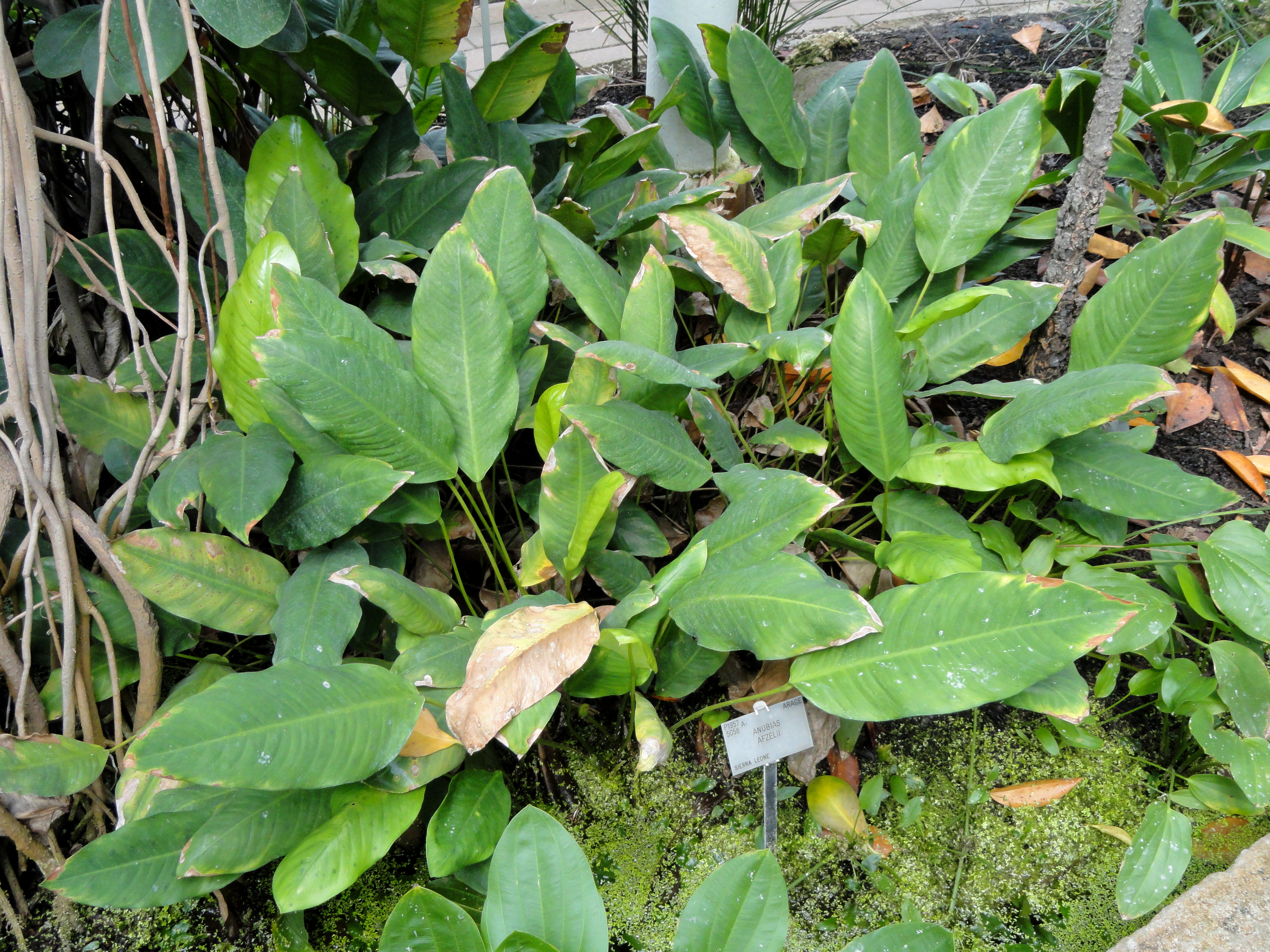 Botanical specimen in the University of Copenhagen Botanical Garden, Copenhagen, Denmark.